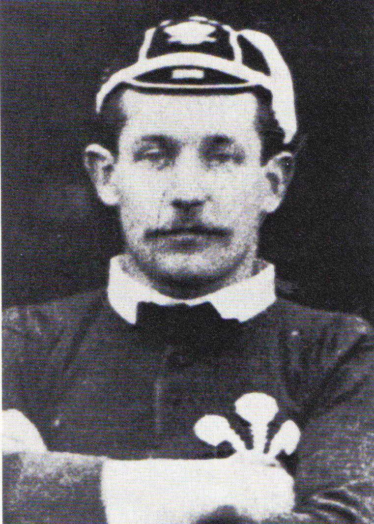 Dr Edward Pegge, Wales international rugby union player, and Neath RFC